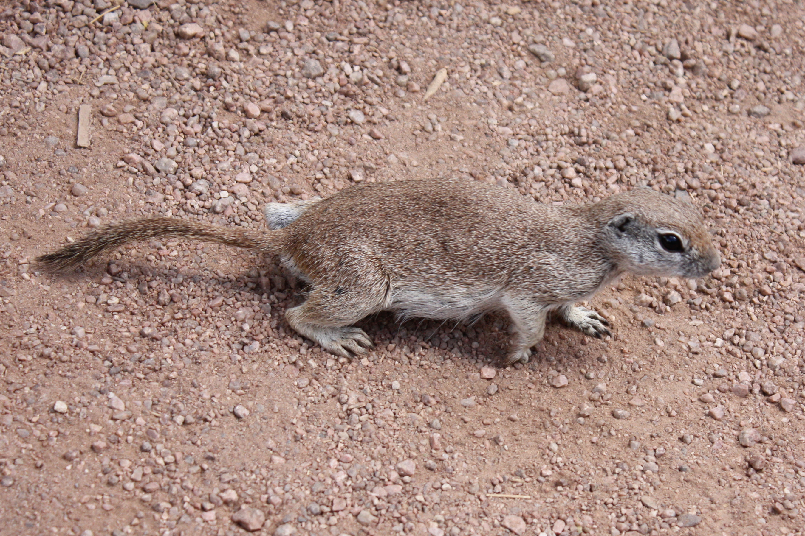 Round-tailed Ground Squirrel (Spermophilus tereticaudus) in Phoenix, Arizona